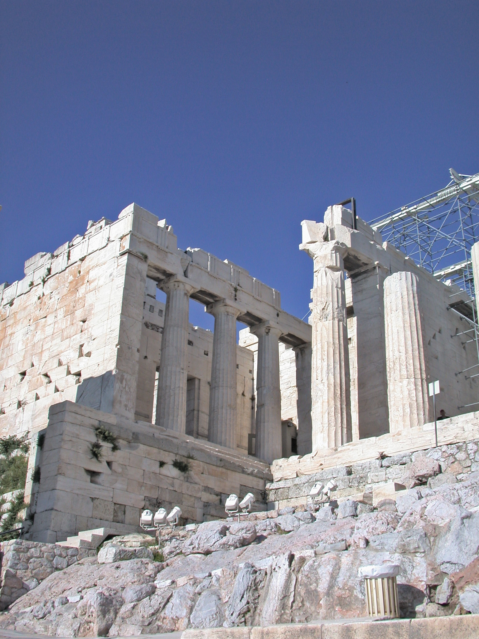 Greece, Athens, Propilea (entrance to Acropolis)